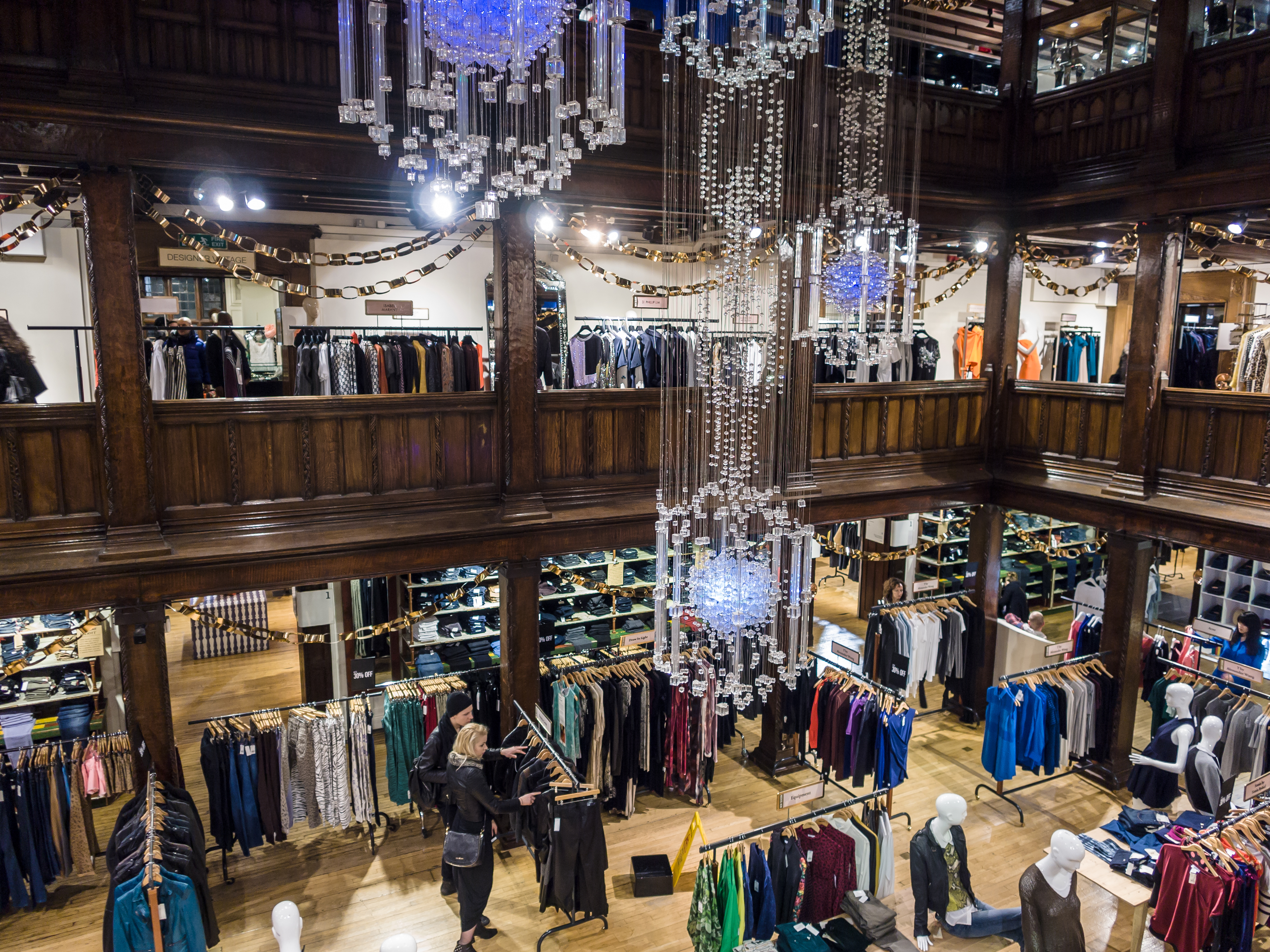 During the Christmas shopping season, 2012